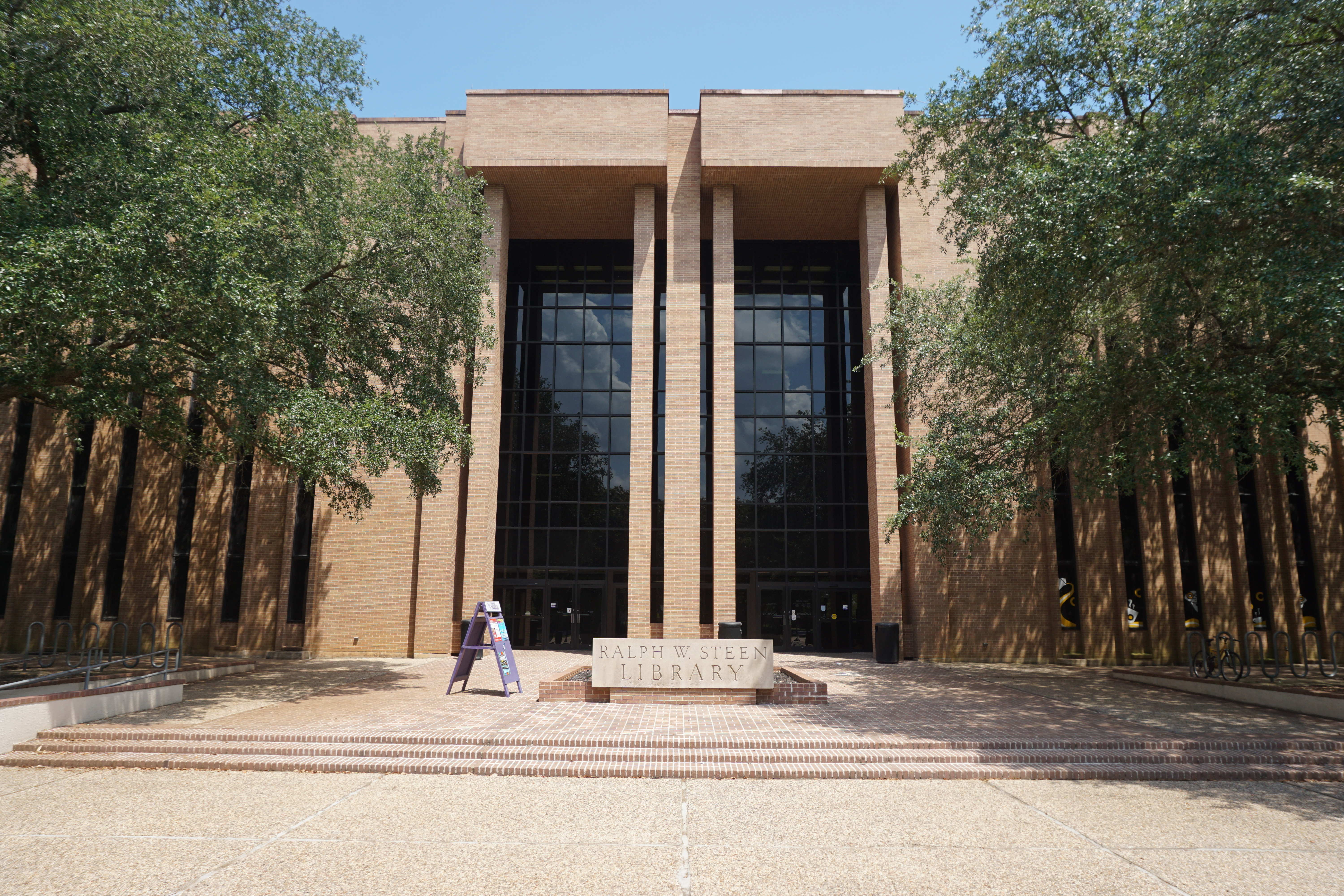 The Ralph W. Steen Library on the campus of Stephen F. Austin State University in Nacogdoches, Texas (United States).